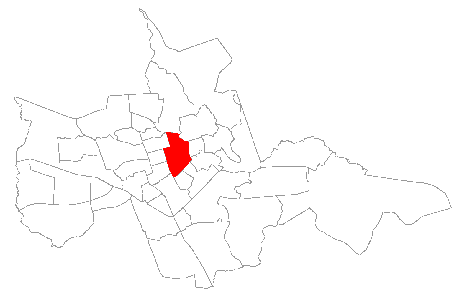 neighborhood/district of Santa Maria, Rio Grande do Sul